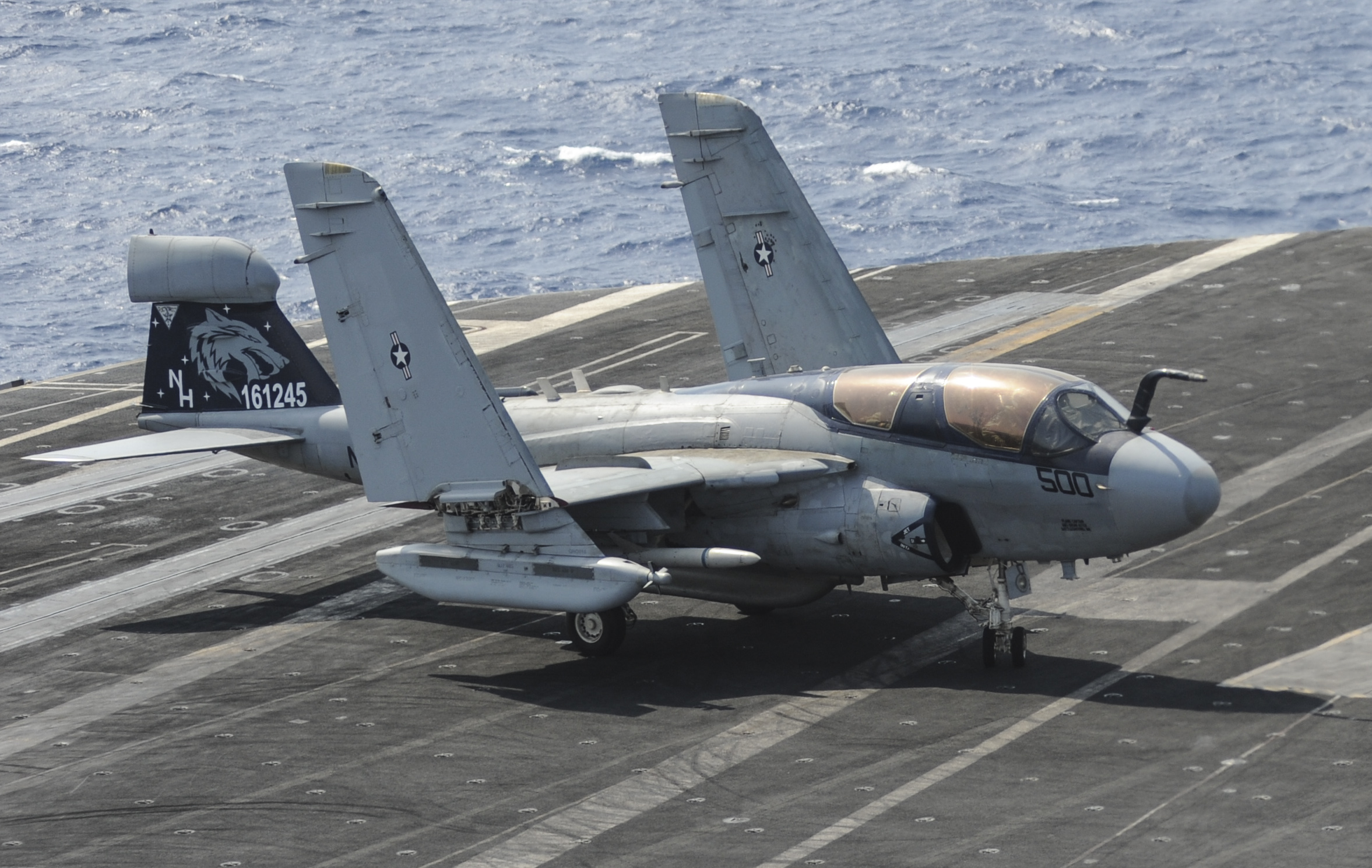 A U.S. Navy Grumman EA-6B Prowler (BuNo 161245) assigned to Electronic Attack Squadron (VAQ) 142 "Gray Wolves" moves across the flight deck of the aircraft carrier USS Nimitz (CVN-68) in the Red Sea. VAQ-142 was assigned to Carrier Air Wing 11 (CVW-11) aboard the Nimitz for a deployment to the Western Pacific and the Indian Ocean since 30 March 2013.